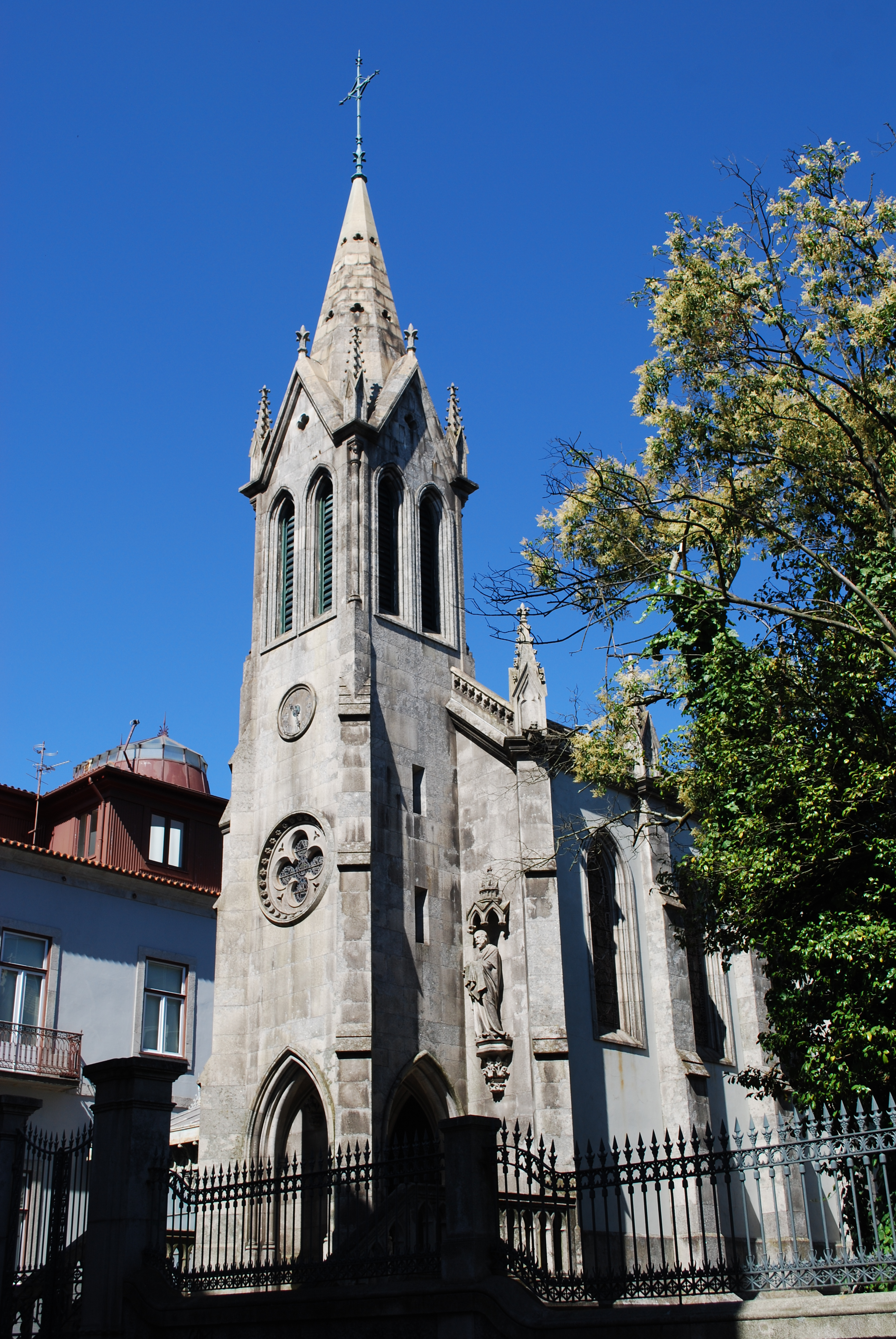 Chapel of Divino Coração de Jesus. This file was uploaded for Wiki Loves Monuments in Portugal with the unique identifier 74378. This monument is classified as Imóvel de Interesse Público.